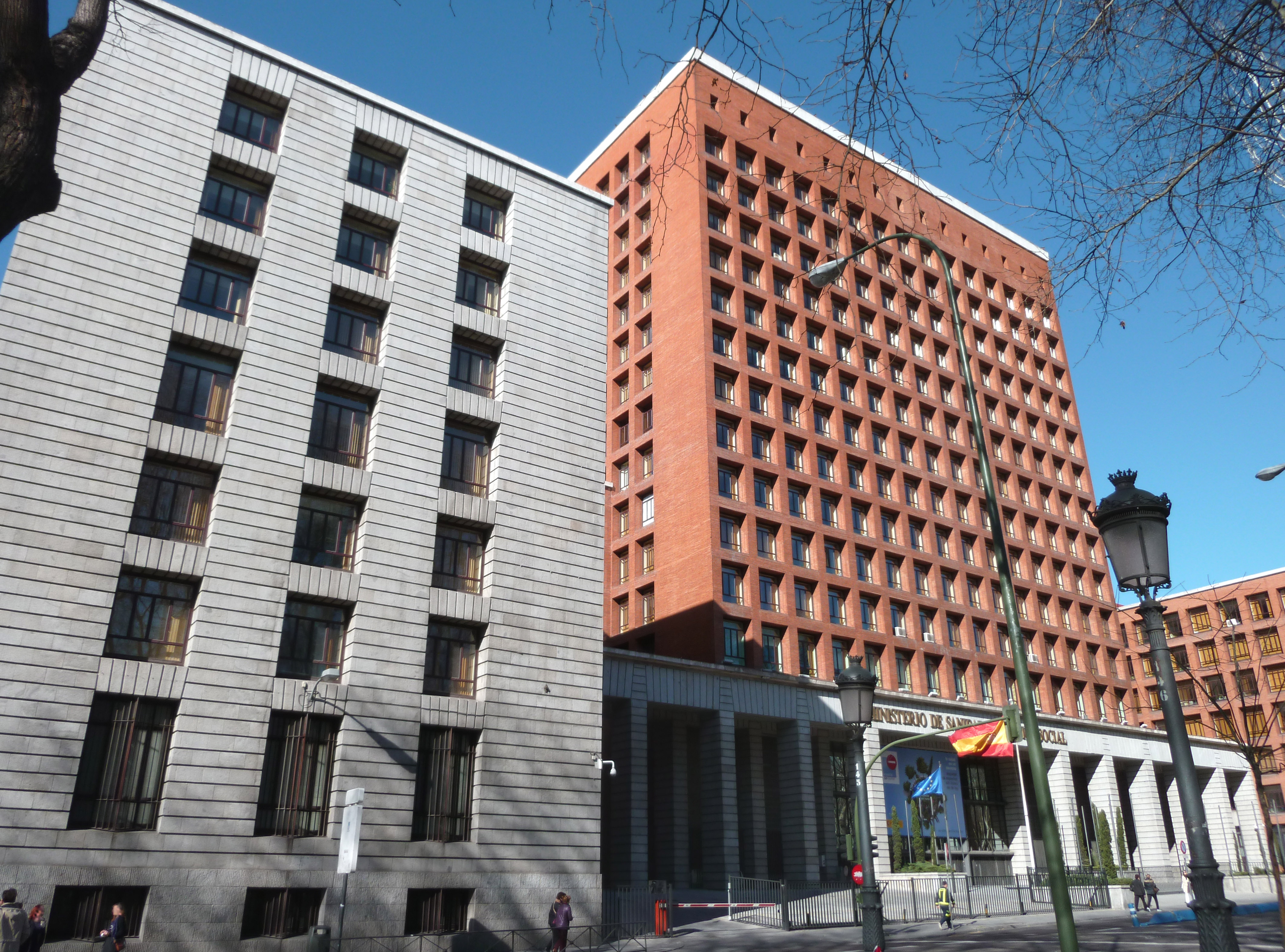 Façade of the Spanish Ministry of Health, at 18-20 Paseo del Prado (a boulevard) in Centro district in Madrid. Building was projected in 1949 by Francisco de Asís Cabrero and Rafael de Aburto Renovales, and built from 1950 to 1951.